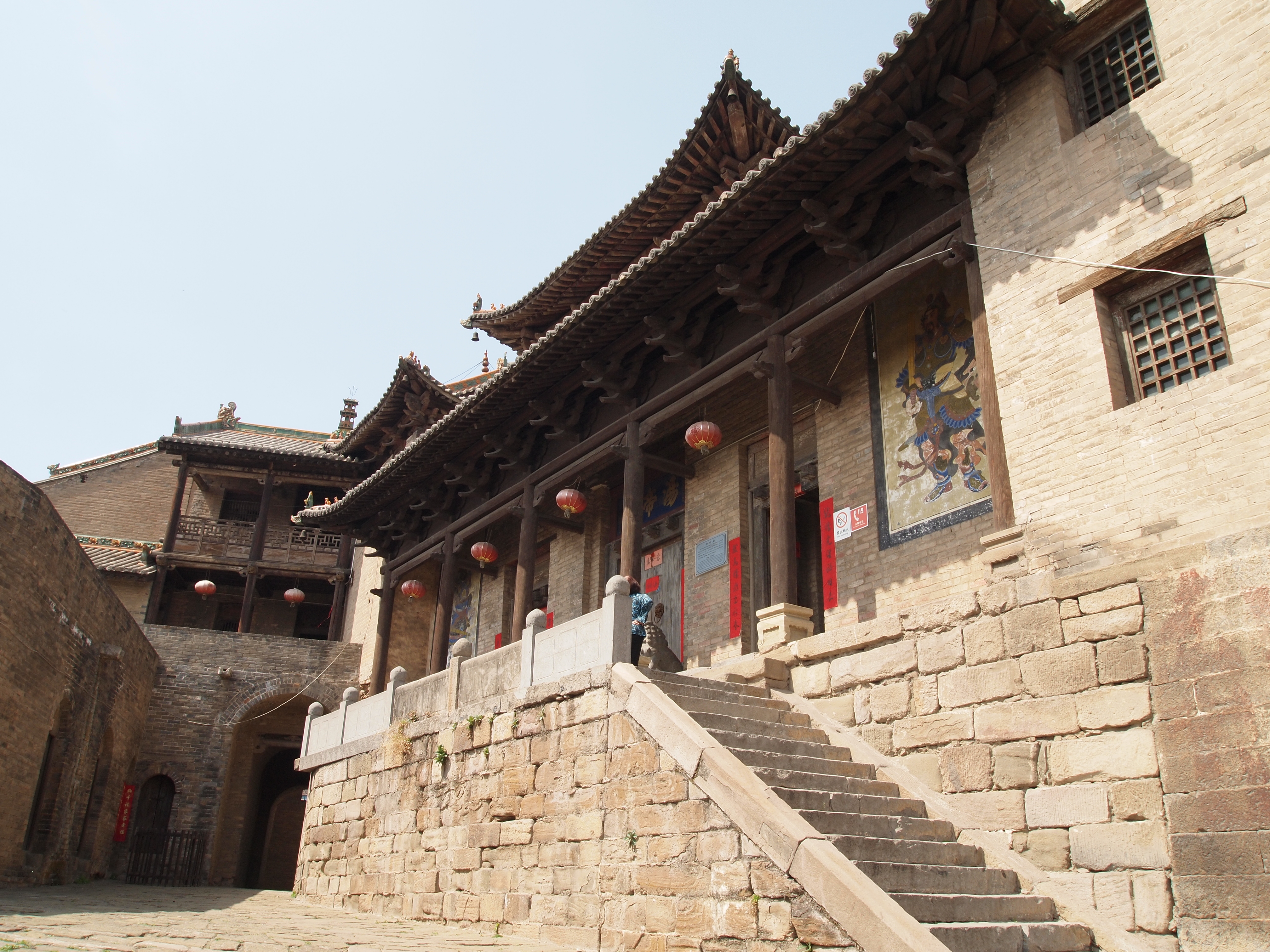 Temple to Tang of Shang (湯帝廟) in Guoyucun (郭峪村), Yangcheng, Shanxi